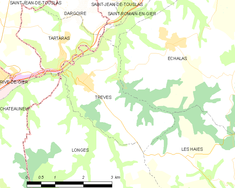 Map of French municipality